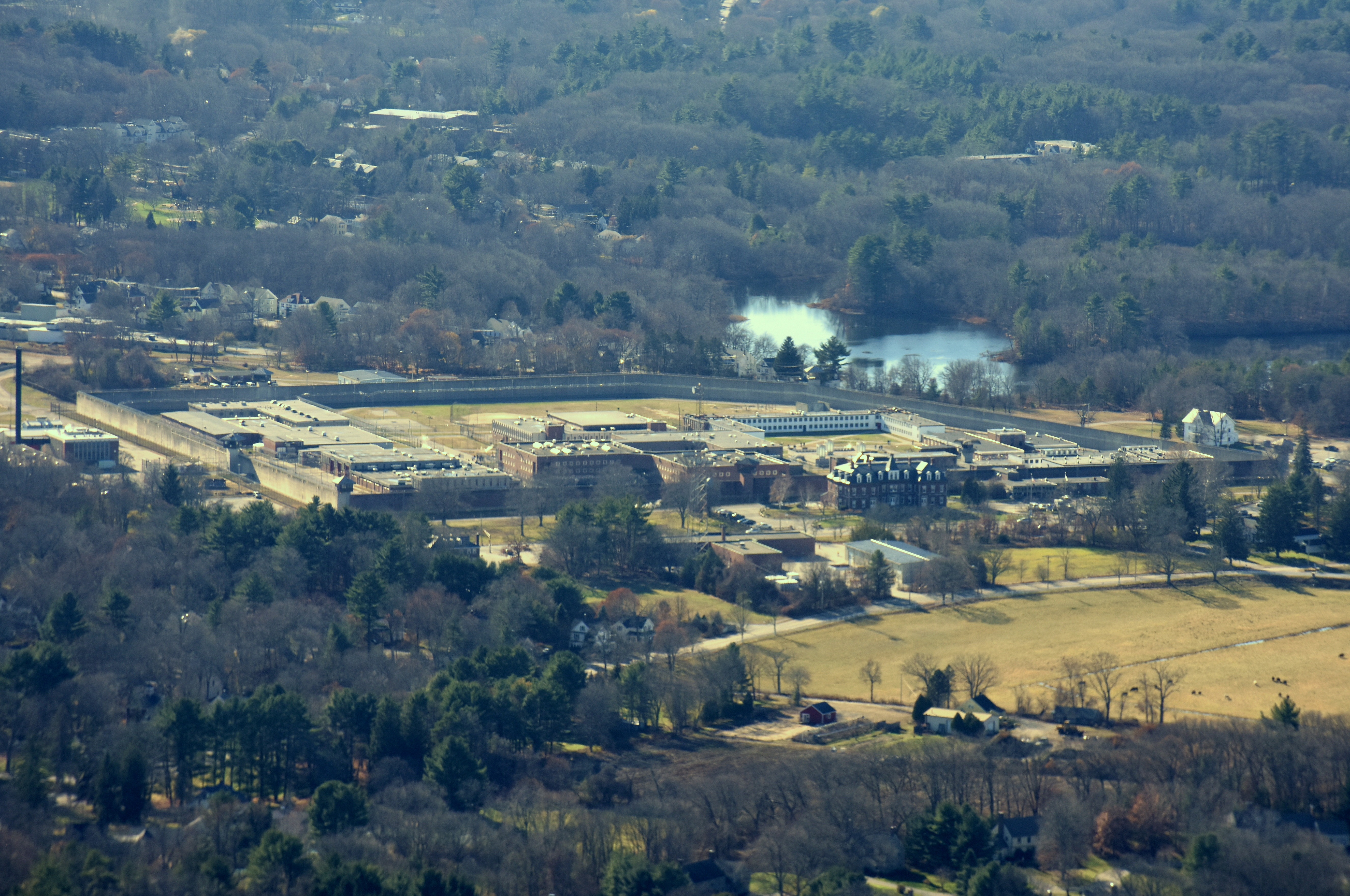 Aerial view of Massachusetts Correctional Institute (MCI) at Concord on Route 2 in Concord, Massachusetts